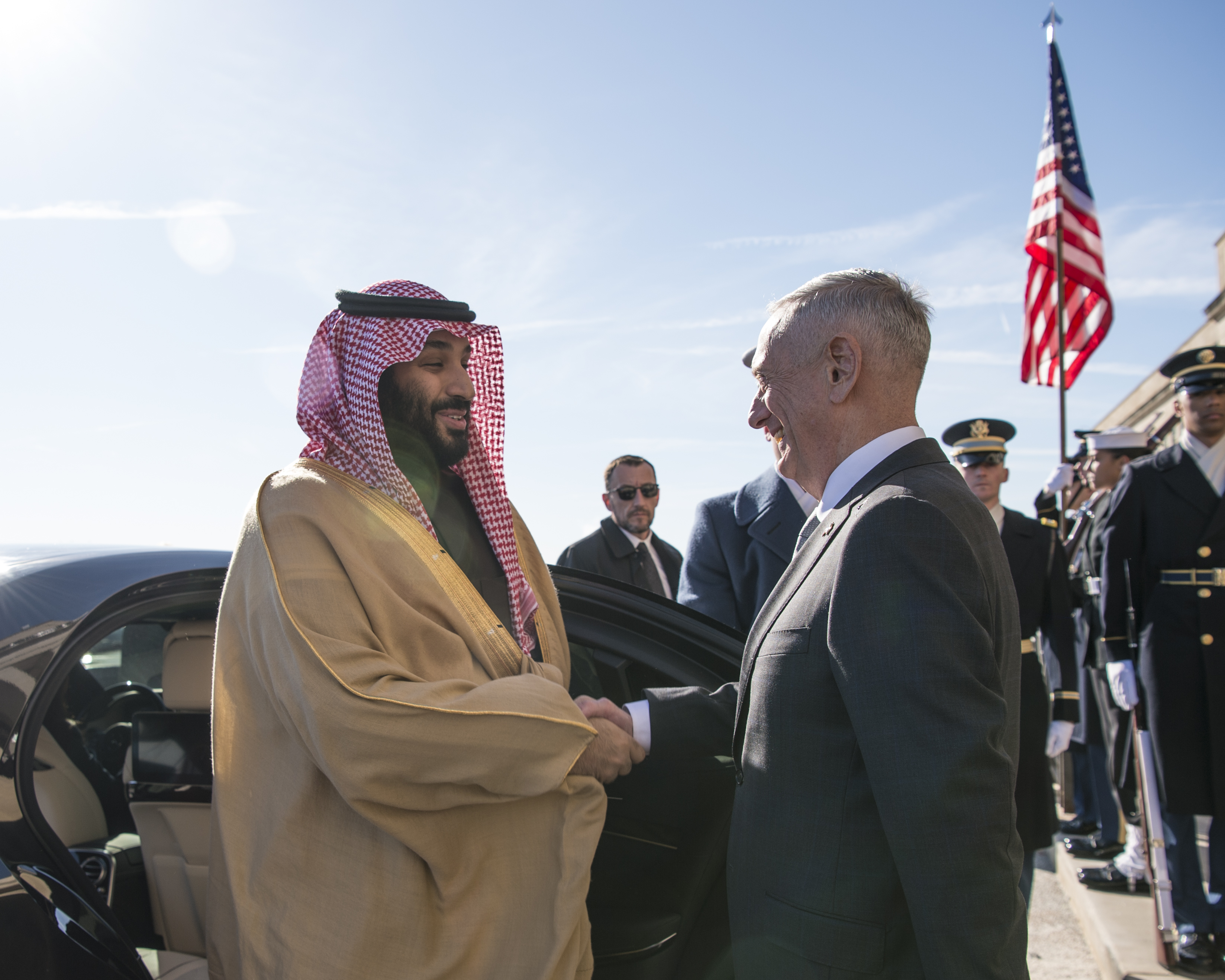 Defense Secretary James N. Mattis meets with Saudi Arabia's First Deputy Prime Minister and Minister of Defense, Crown Prince Mohammed bin Salman bin Abdulaziz at the Pentagon in Washington D.C. (180322-D-SH953-0118)